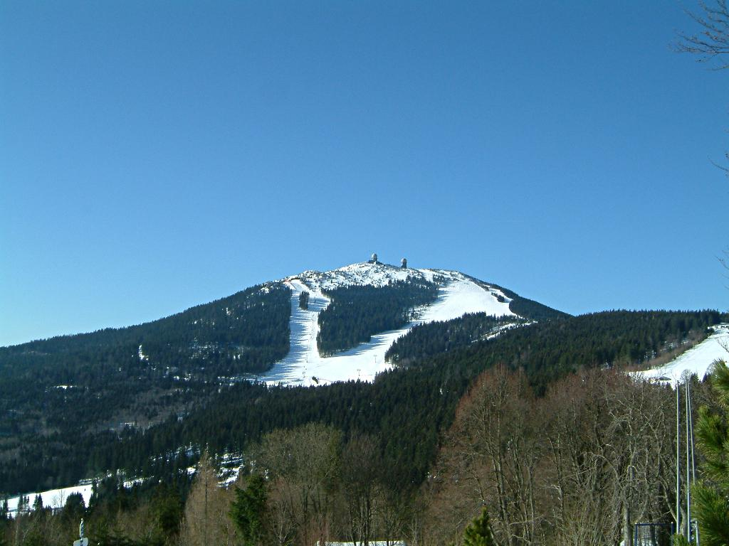 Großer Arber with both radomes of the Remote Technical Platoon 133 (Tactical Air Command and Control Service of the German Air Force). The Radome on the left-hand side accommodates a RRP 117 sensor, however, the Radome on the right-hand side is empty and not any more in operation.